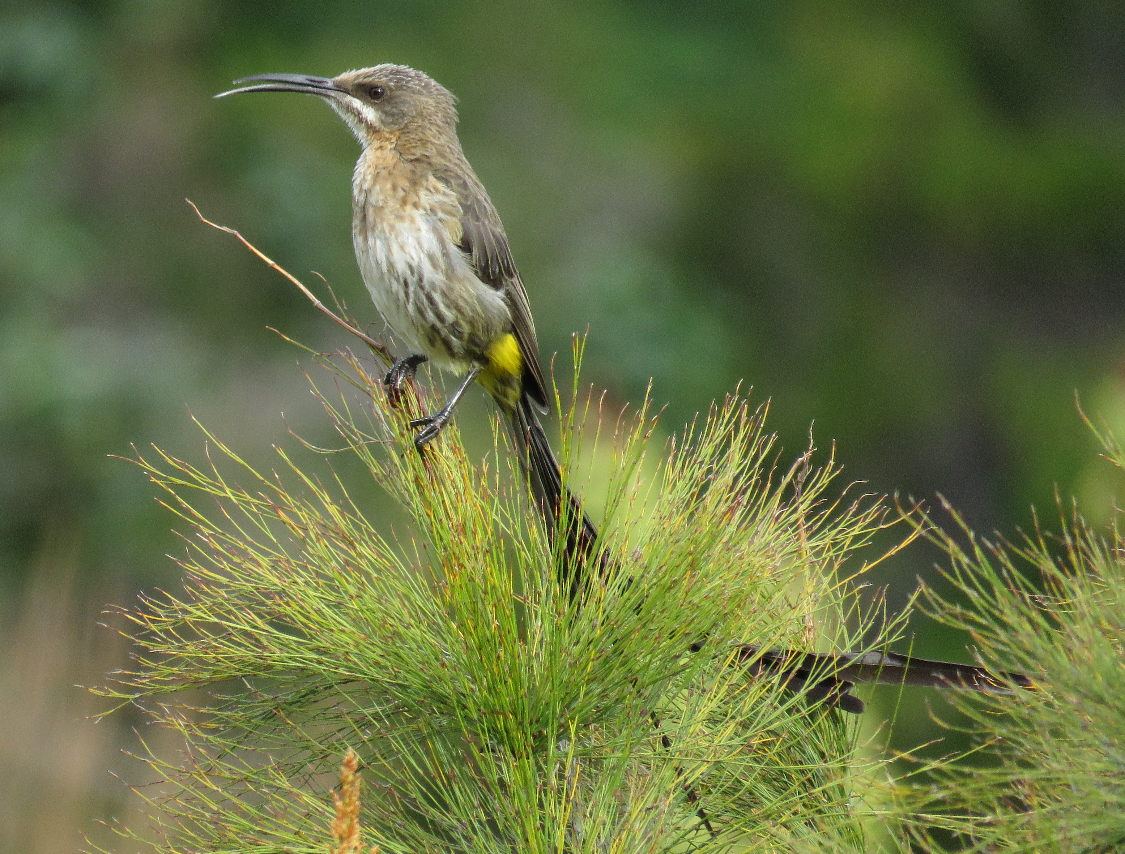 South African female Sugar Bird, taken in Cape Town.